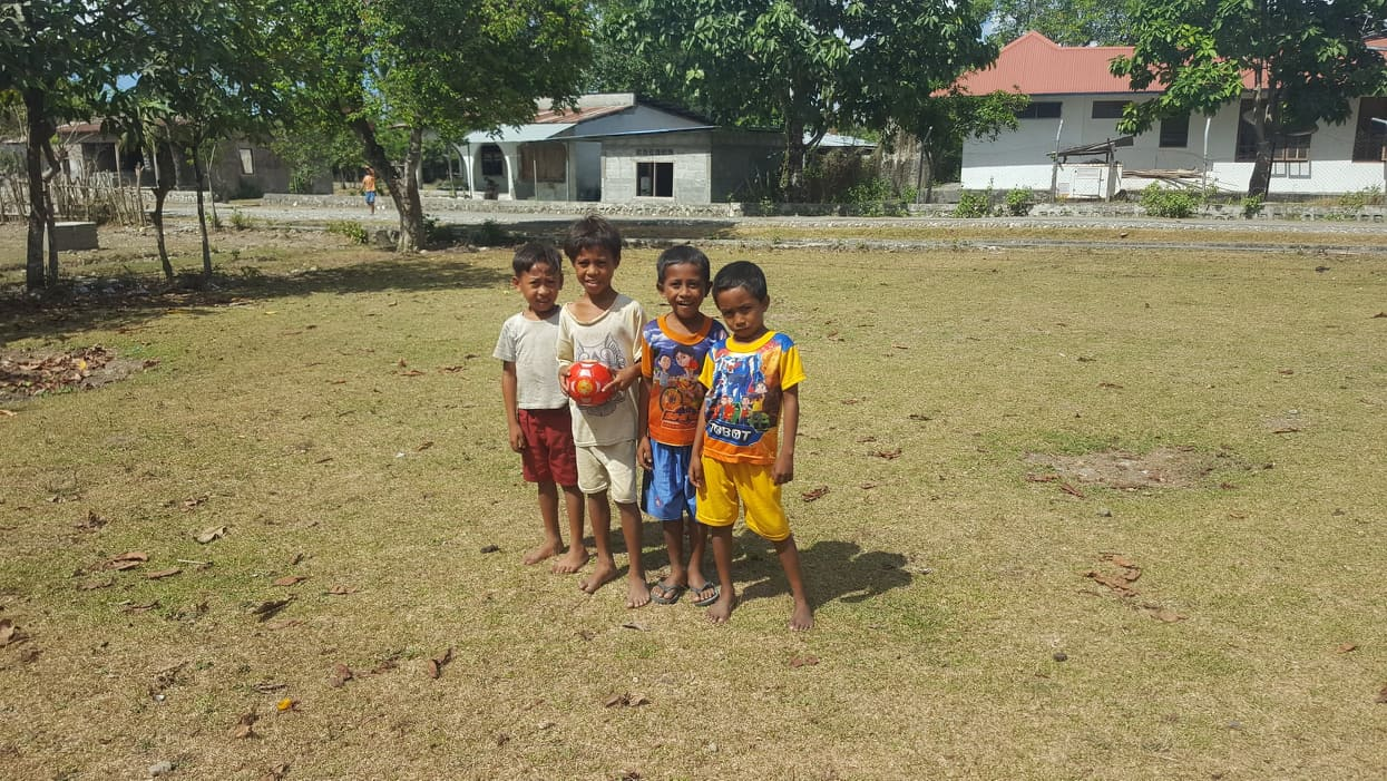 Children in Dilor, East Timor